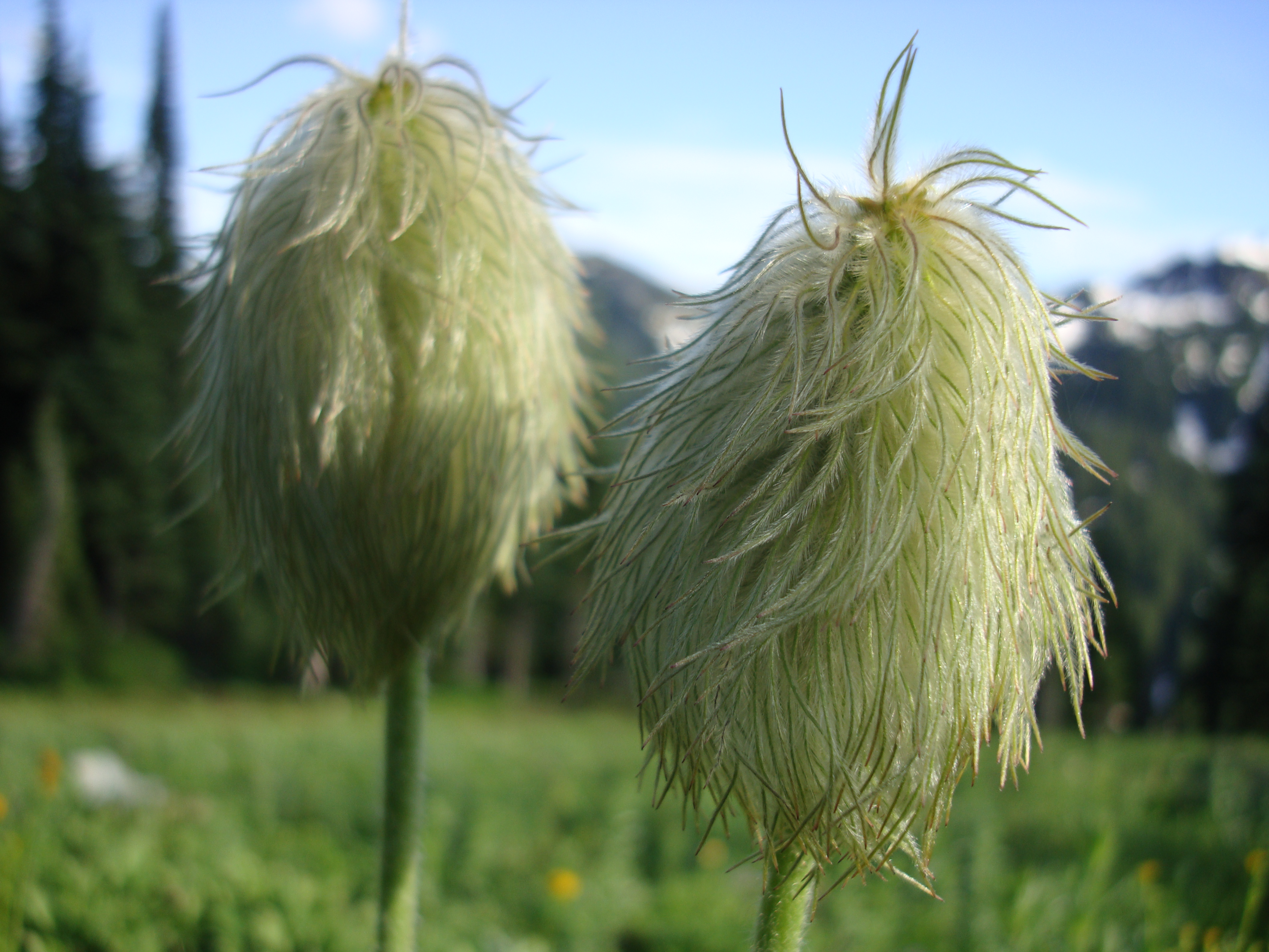 A Western Pasqueflower (Anemone occidentalis) in Mount Rainier National Park in Washington state, United States.